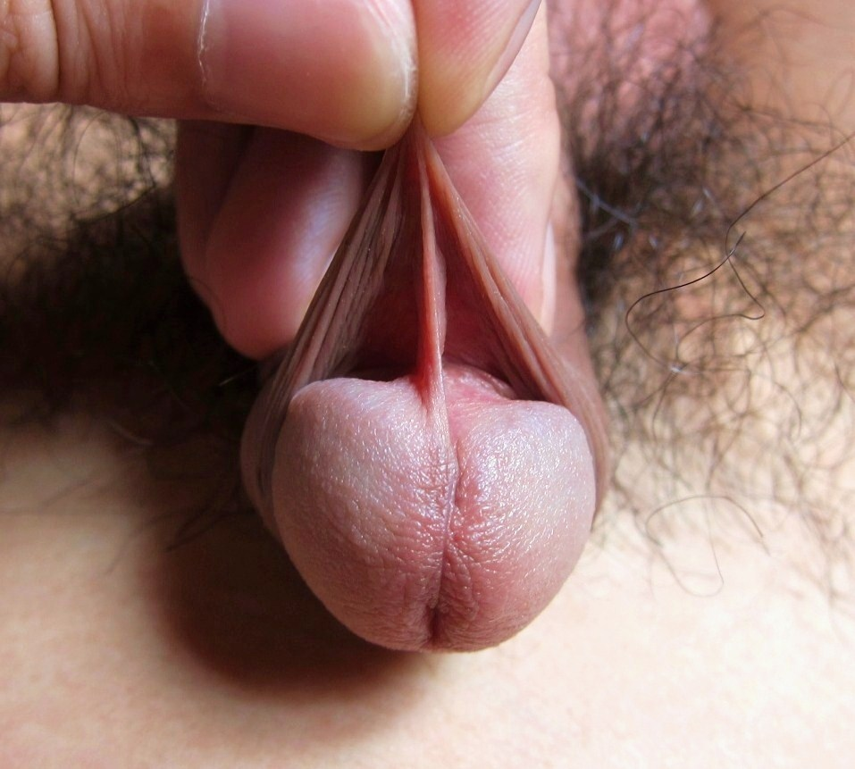 Front view of glans and preputial frenulum.